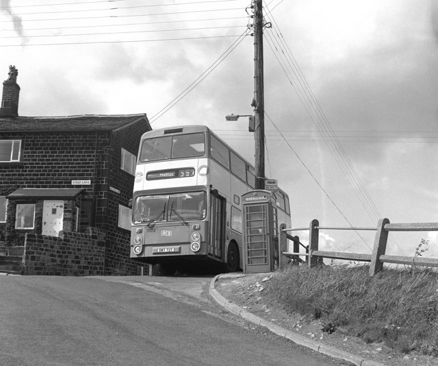 Steep Lane bus terminus, Yorkshire. The bus route between Halifax and Steep Lane was first opened by Halifax Corporation, but by 1986 was operated by West Yorkshire Passenger Transport Executive. The route had narrow lanes with very sharp bends, precipitous hills and very limited clearances. Only the most senior and experienced drivers were rostered for this route. When I asked why double-deckers were used, I was told that 'single deckers are too long - they'd never get round the corners!